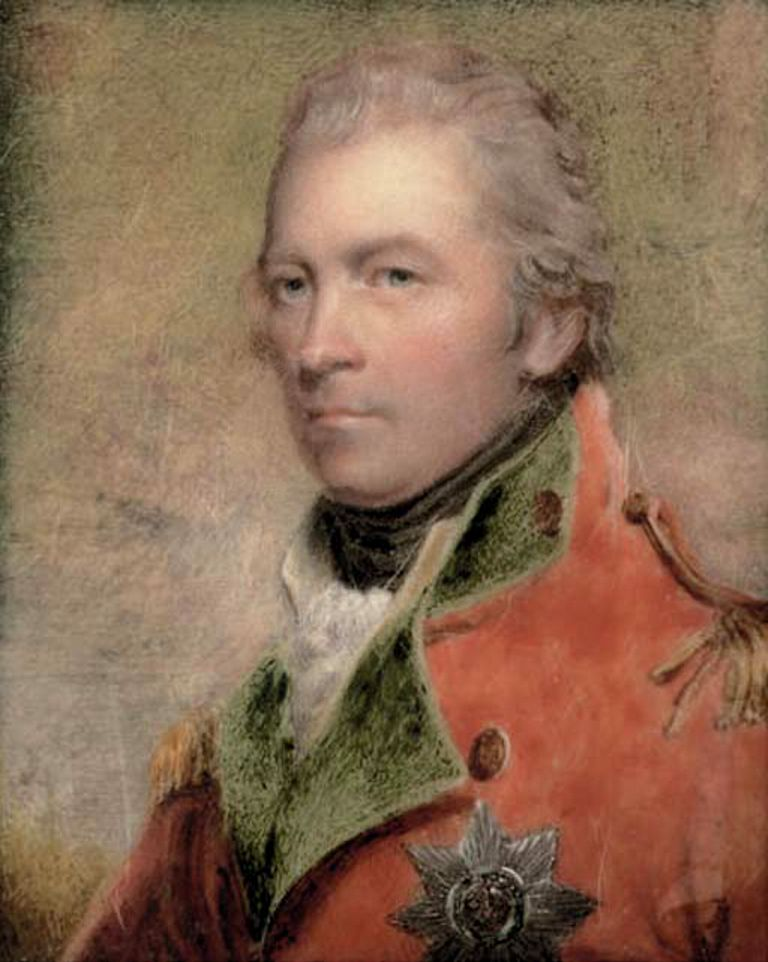 Charles Lennox, 4th Duke of Richmond and Lennox KG, in scarlet coat with green facings and gold epaulettes, wearing the breast-star of the Order of the Garter, signed and dated 'Copied by H Collen 1823'